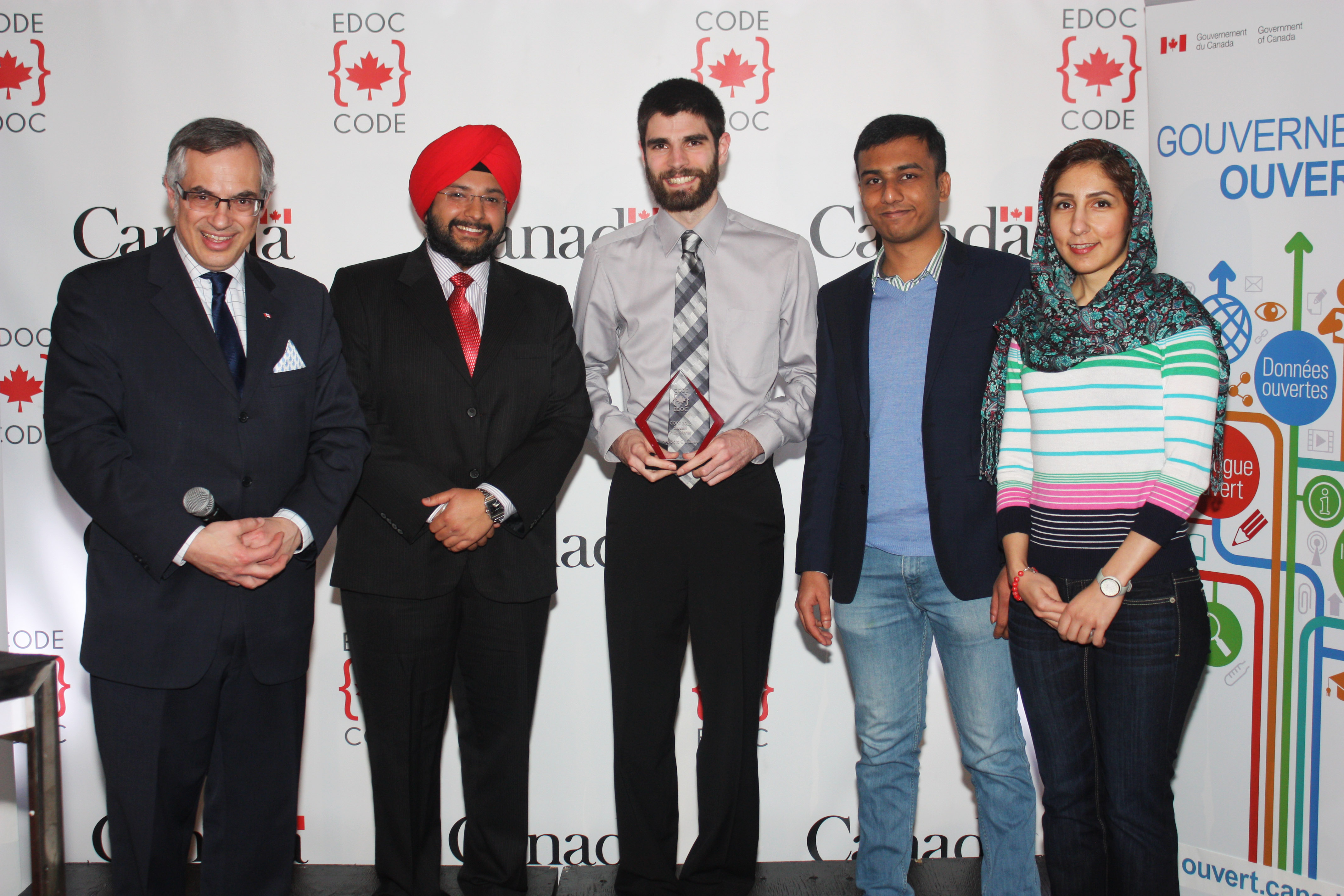 SFU Appathon Team l-r: MP Tony Clement with the SFU Data Crunchers team: Jasneet Sabharwal, Bradley Ellert, Jonathan Bhaskar and Maryam Siahbani.